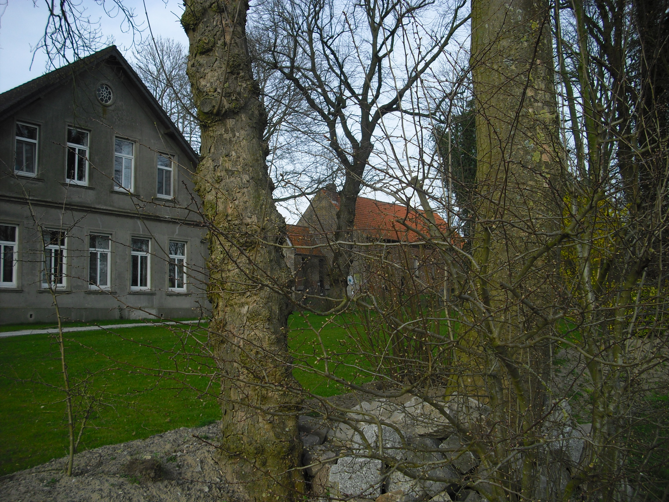 Westrum, village in the northwestern part of Germany (Wangerland, district Friesland)